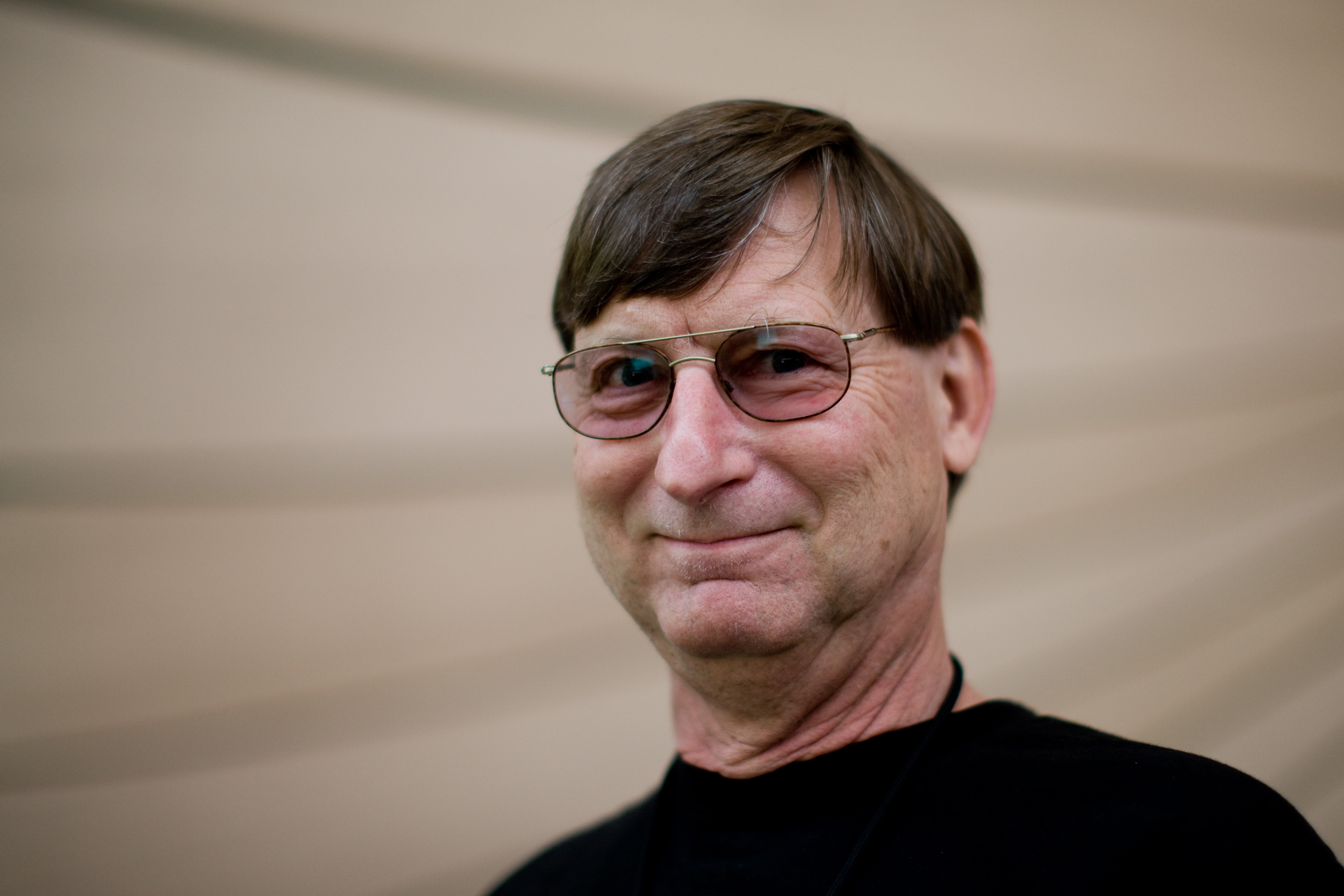 Hal Varian